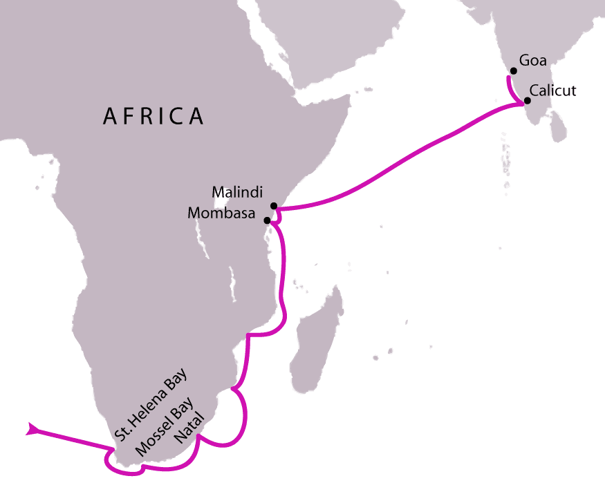 First voyage of Vasco da Gama. I made the map, based on info from several maps and Wikipedia.